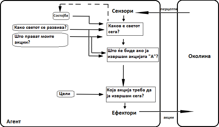 Artificial intelligence